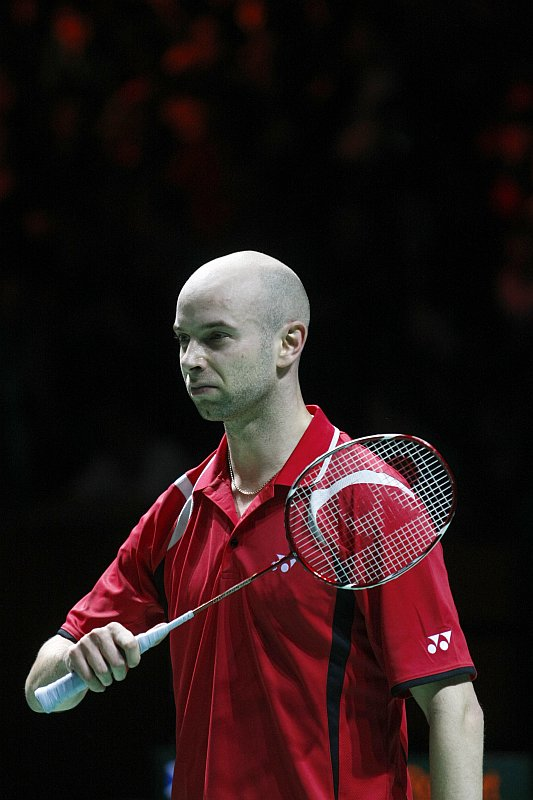 Robert Blair